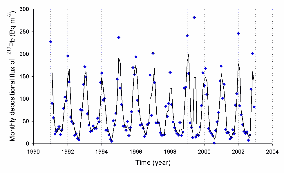 Graph of lead-210 deposited per month in Japan. The graph was drawn using data from a scientific paper.M. Yamamoto et al. Journal of Environmental Radioactivity, 2006, 86, 110-131